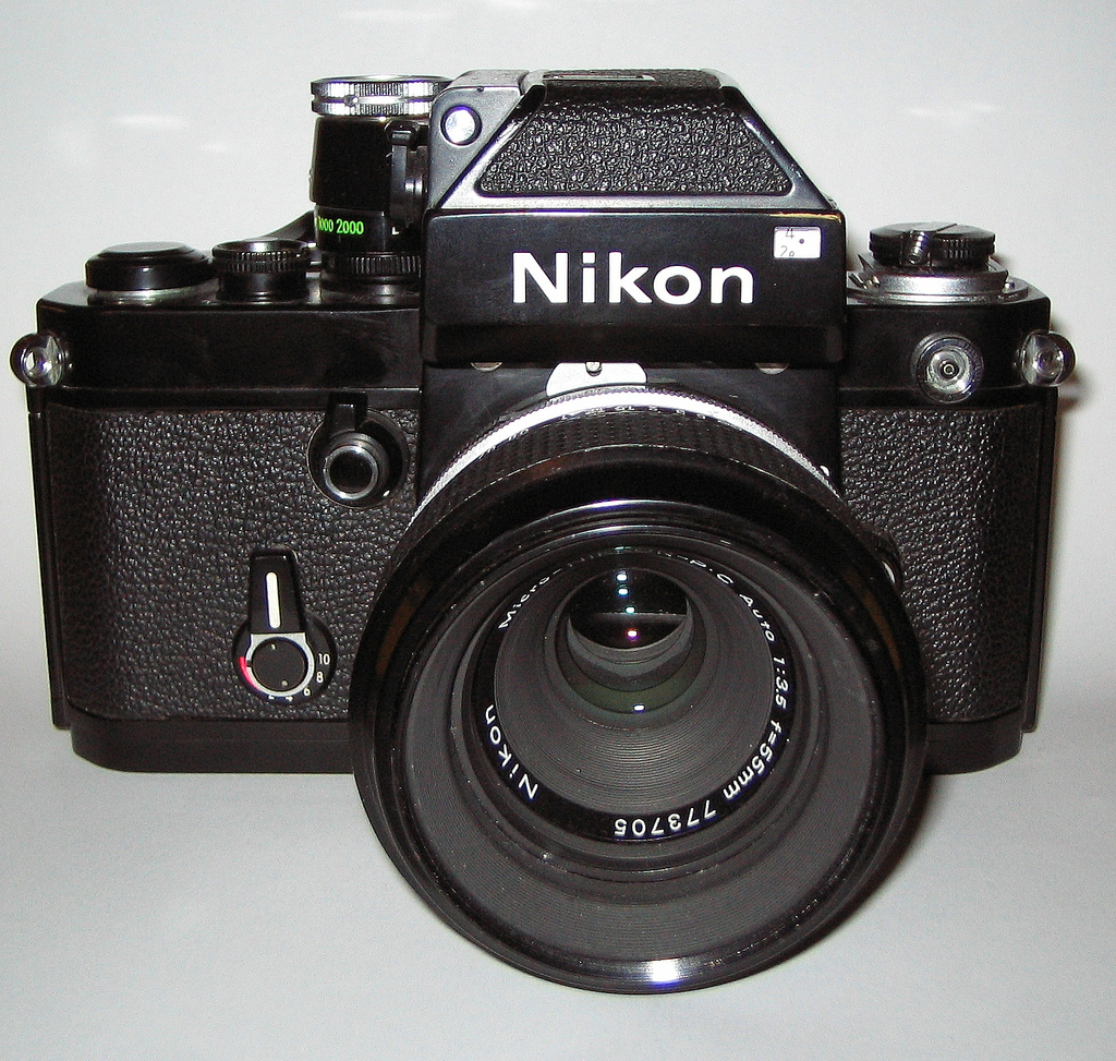 Nikon F2 SLR camera with Micro-NIKKOR 1:3,5 f=55 mm lens